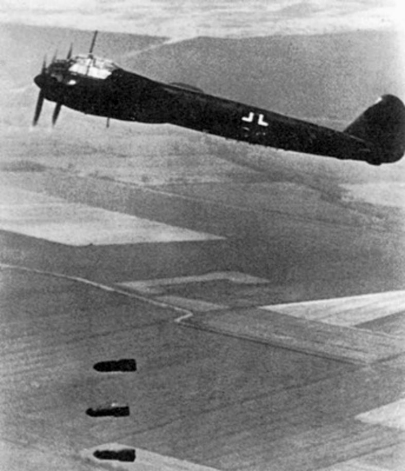 A German Junkers Ju 88A dropping SC 250 bombs.